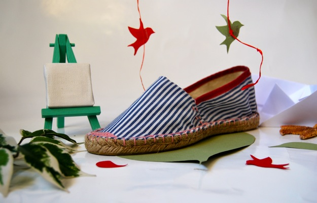 bask espartine